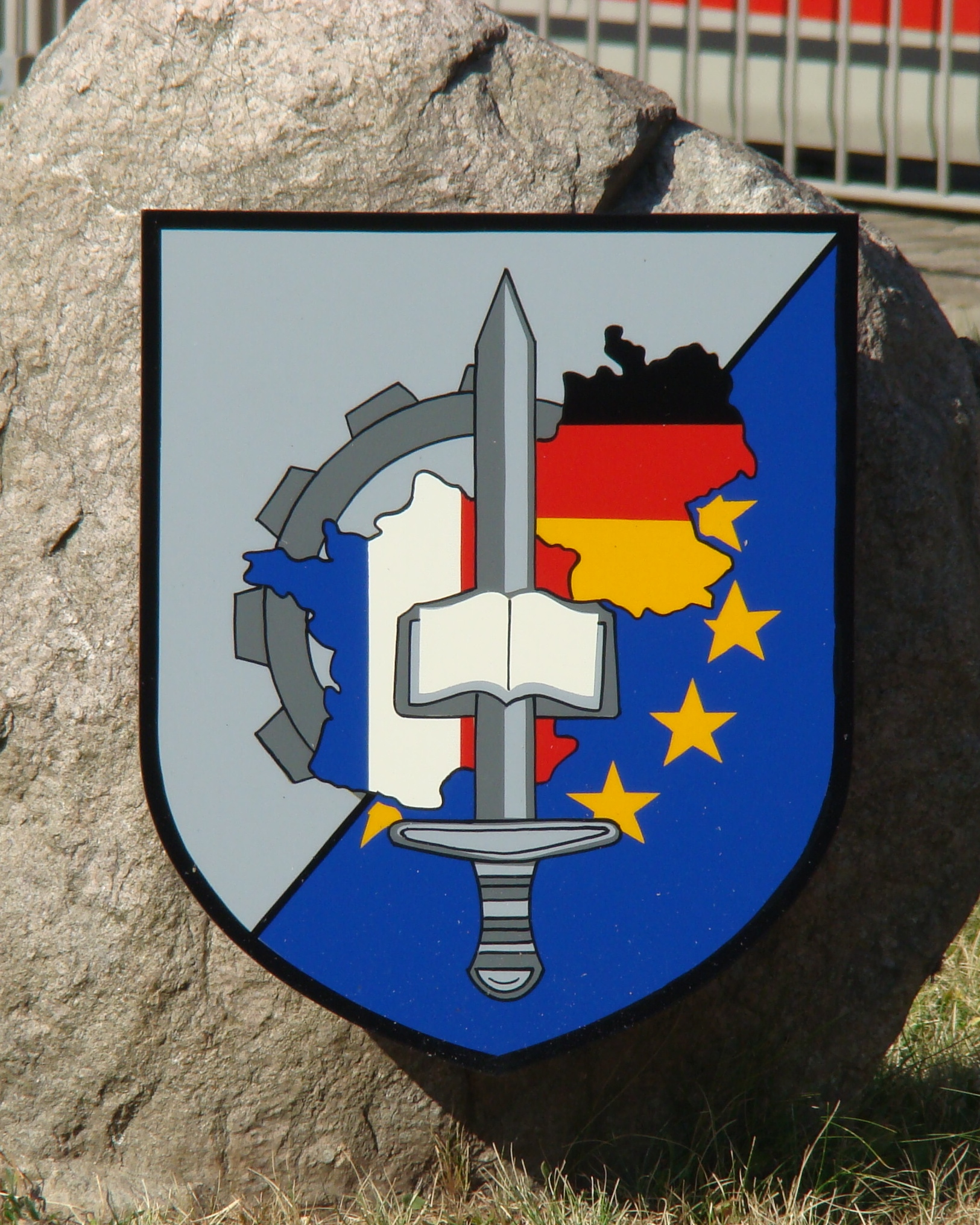 Internal coat of arms of the Bundeswehr (Armed Forces of the Federal Republic of Germany). → Remarks on naming and categorization scheme